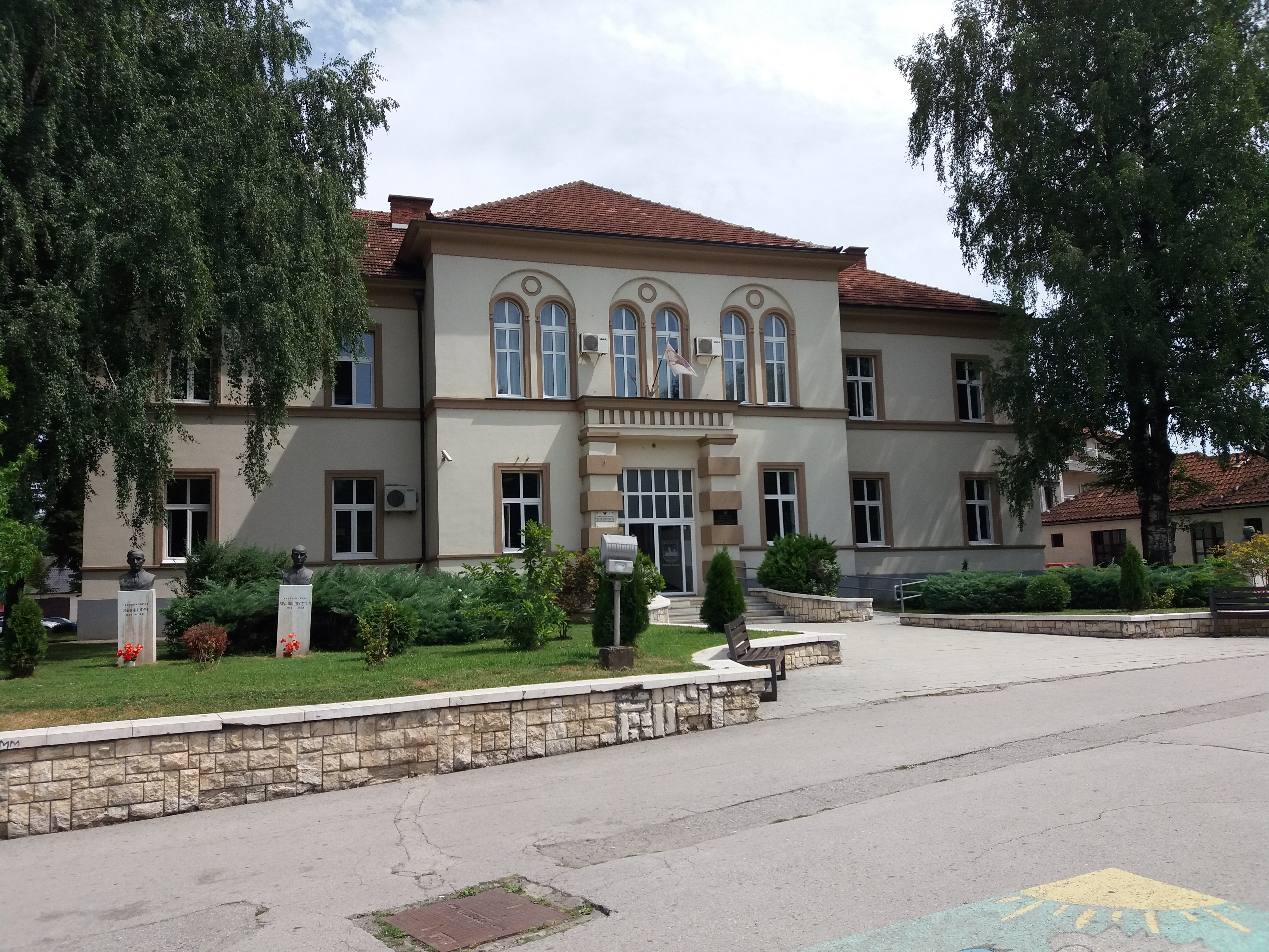 Berane City Hall